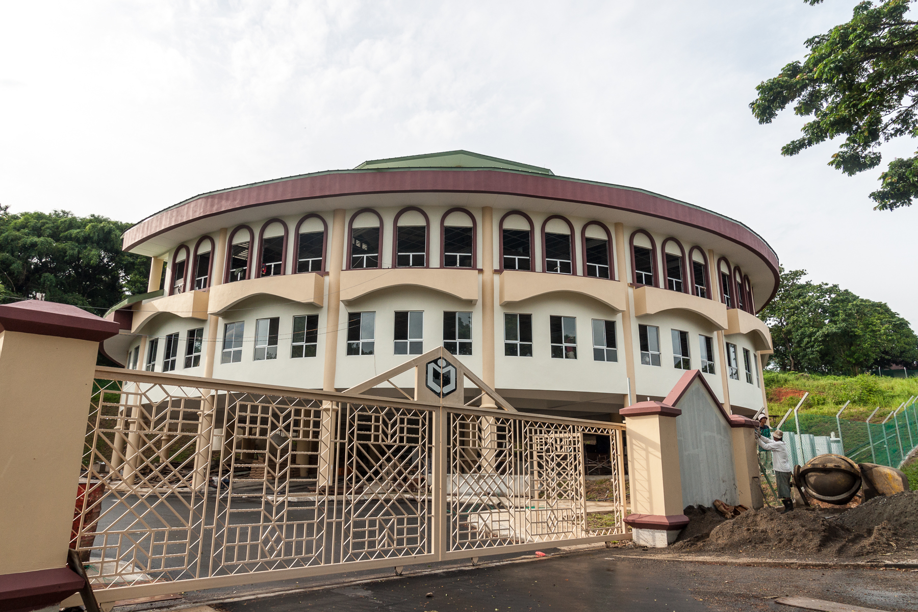 Kota Belud, Sabah: New Library (Perpustakaan)